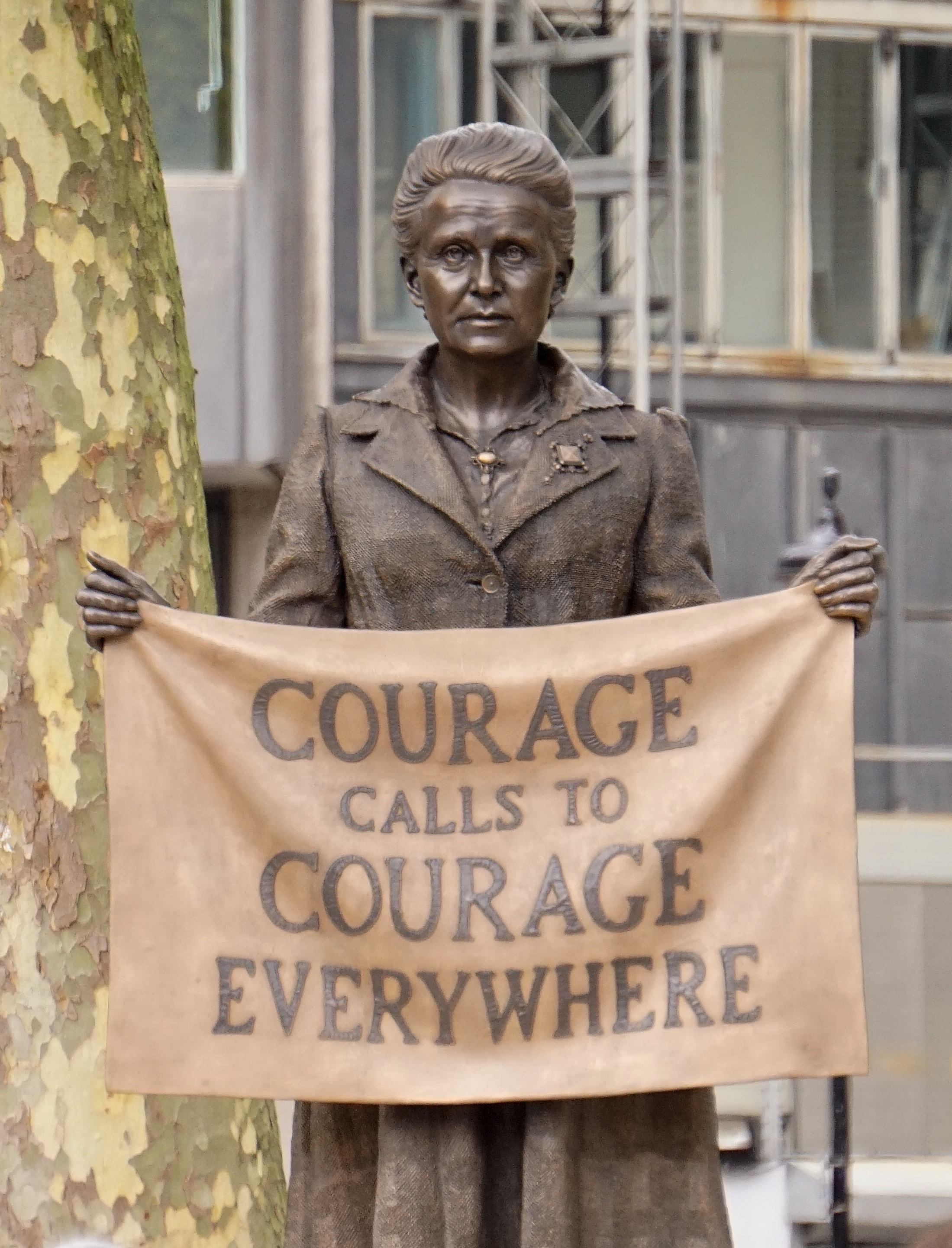 The statue - unveiled at last.